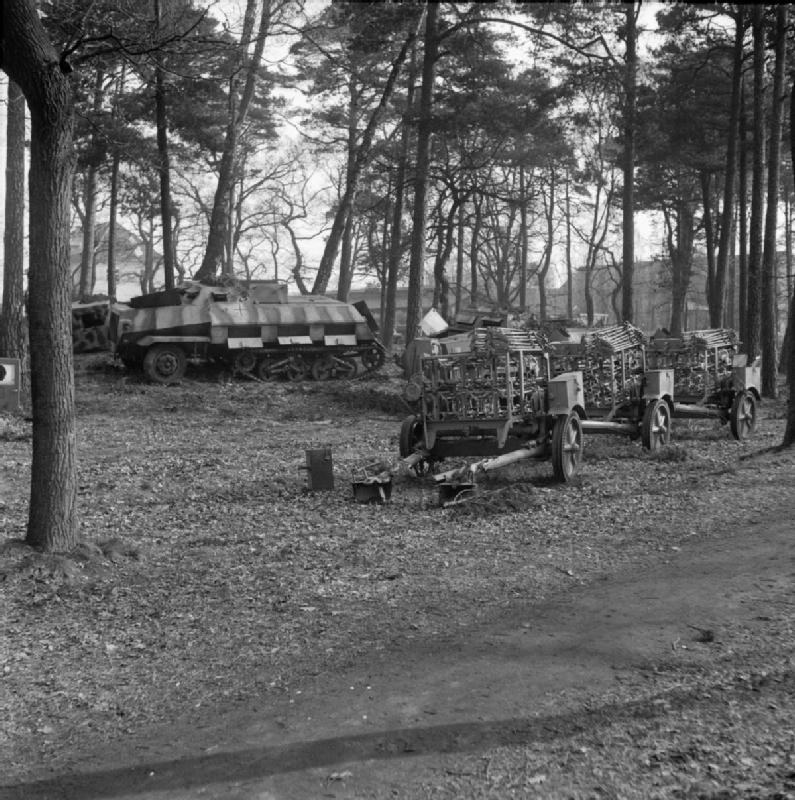 The British Army in North-west Europe 1944-45 Abandoned German half-tracked rocket launchers in a forest near Celle, 13 April 1945.